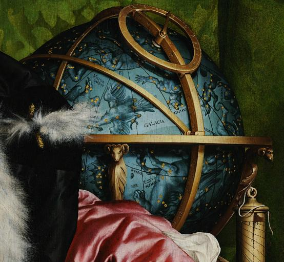 Holbein Ambassadeurs detail globe celeste